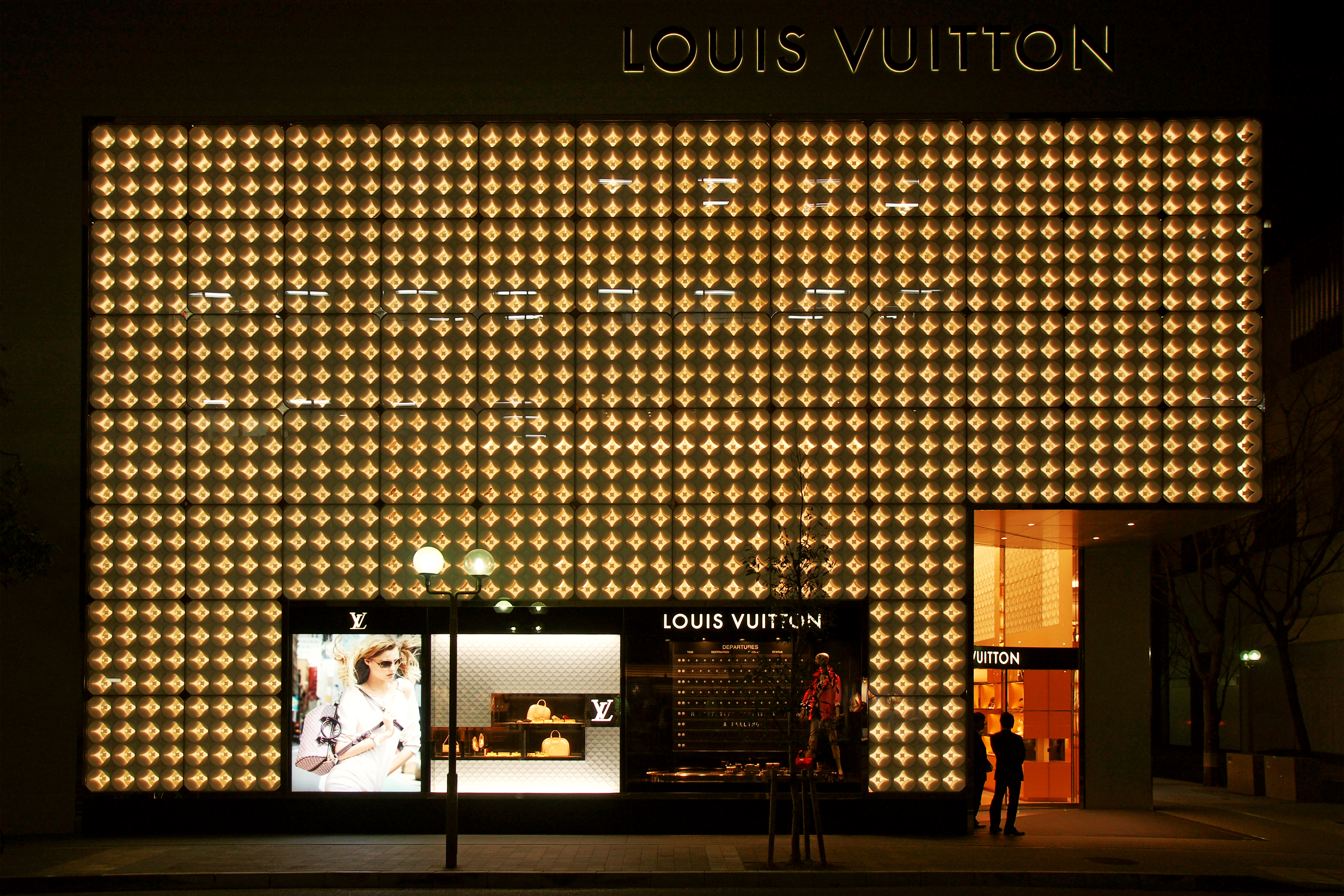 Louis Vuitton Kobe Maison in The Old Settlement Hall of No.25, Kobe, Kobe, Hyogo prefecture, Japan